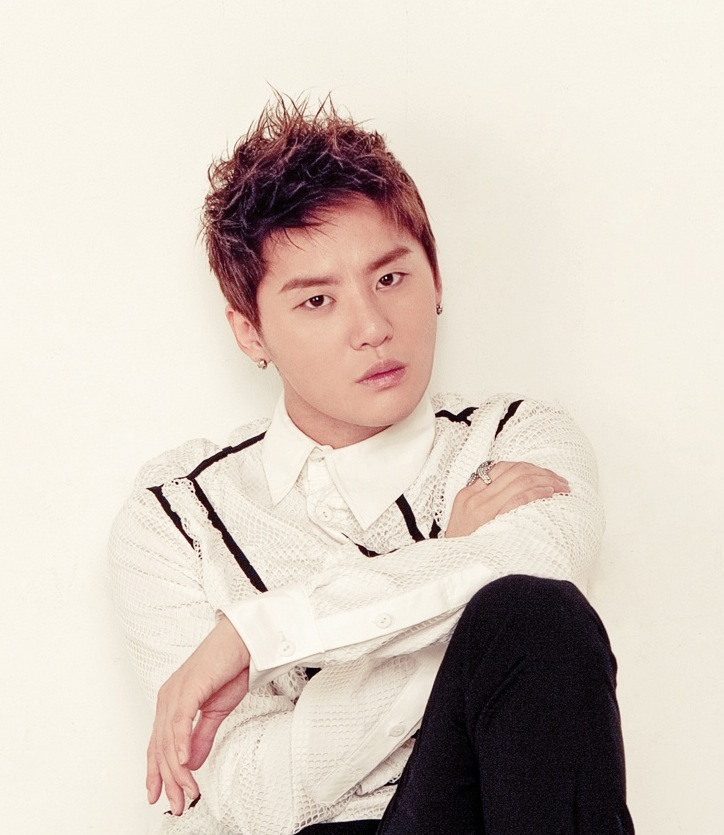 LG 옵티머스 Q2 광고 사진 - JYJ